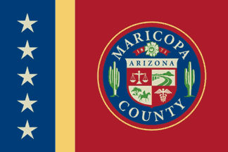 Flag of Maricopa County, Arizona, USA